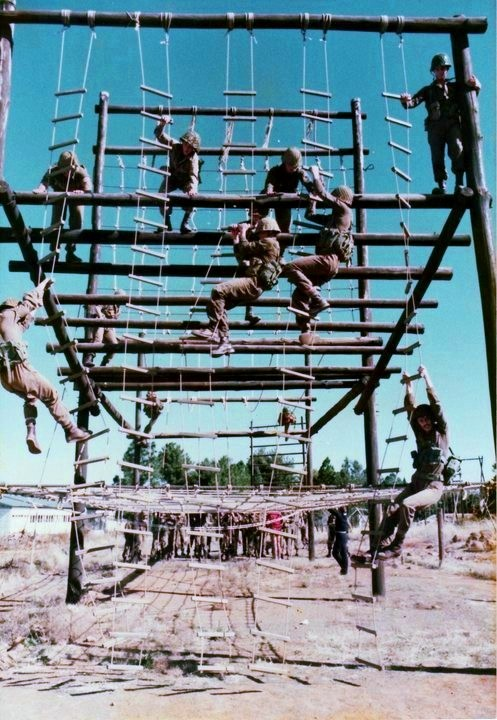 Parachute Qualification Course Image 5